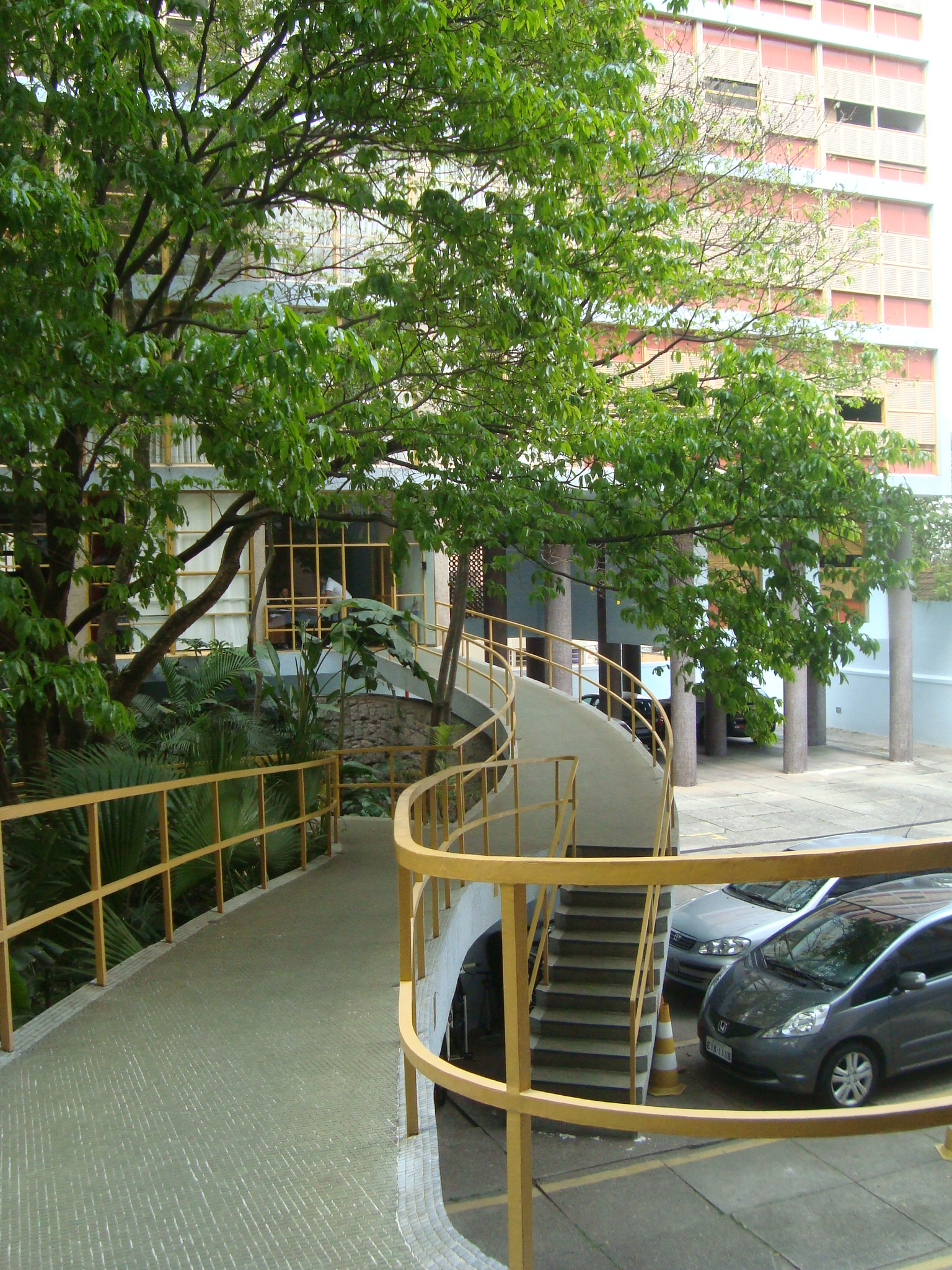 Vista para entrada de um prédio e das escadas que chegam na garagem.